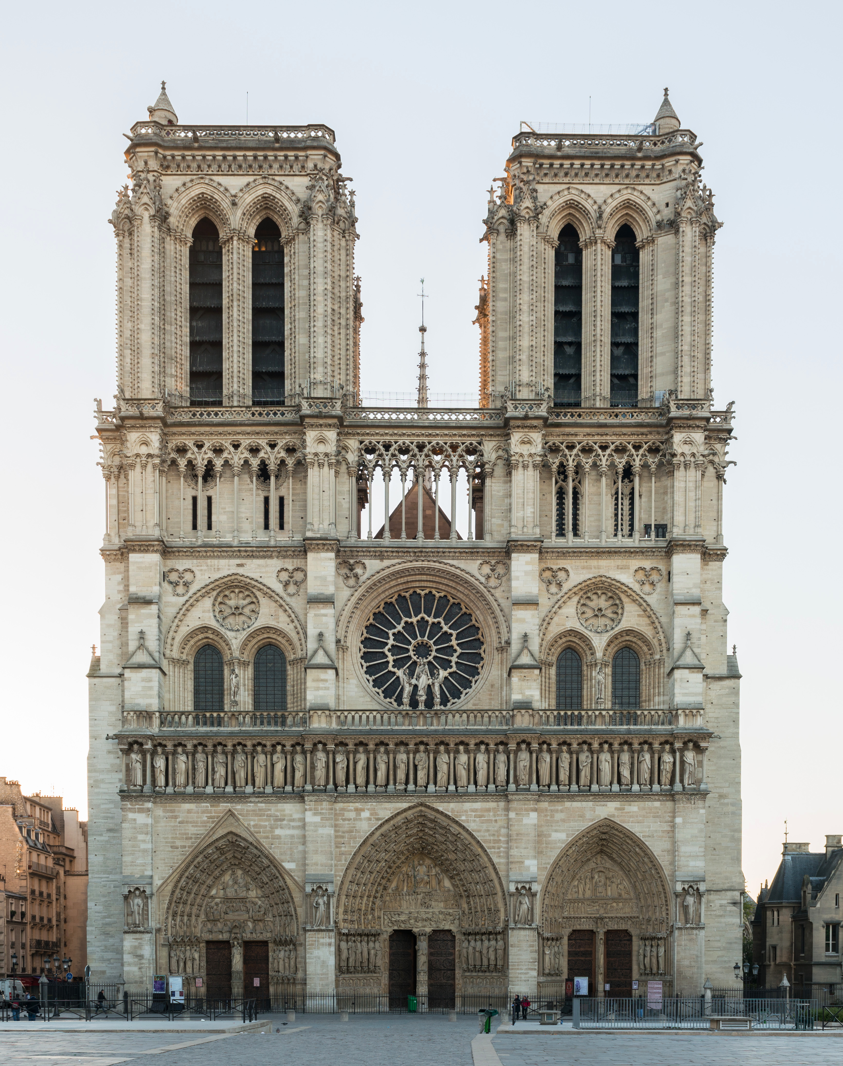 The west facade of Notre Dame de Paris during sunrise